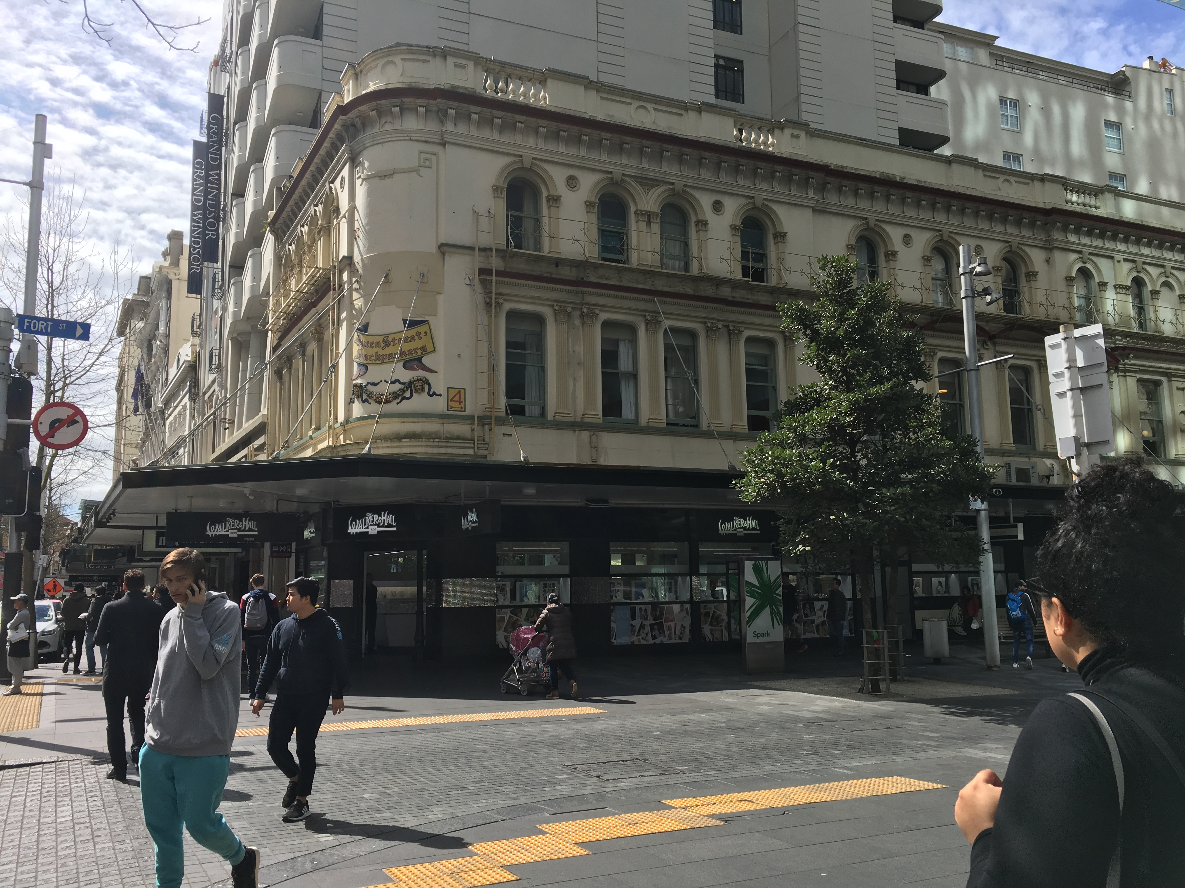 Imperial Hotel, Auckland